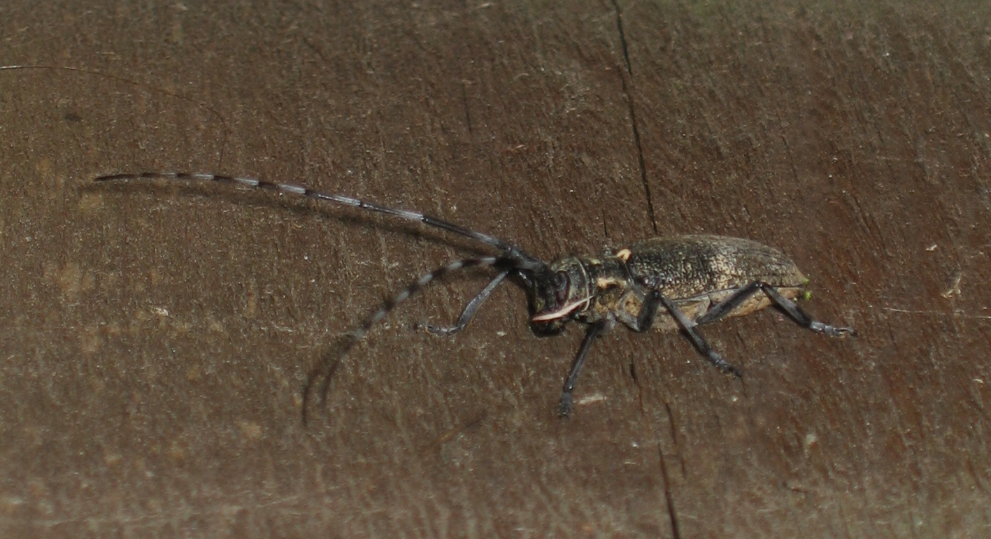 female of Monochamus galloprovincialis pistor in closeup.